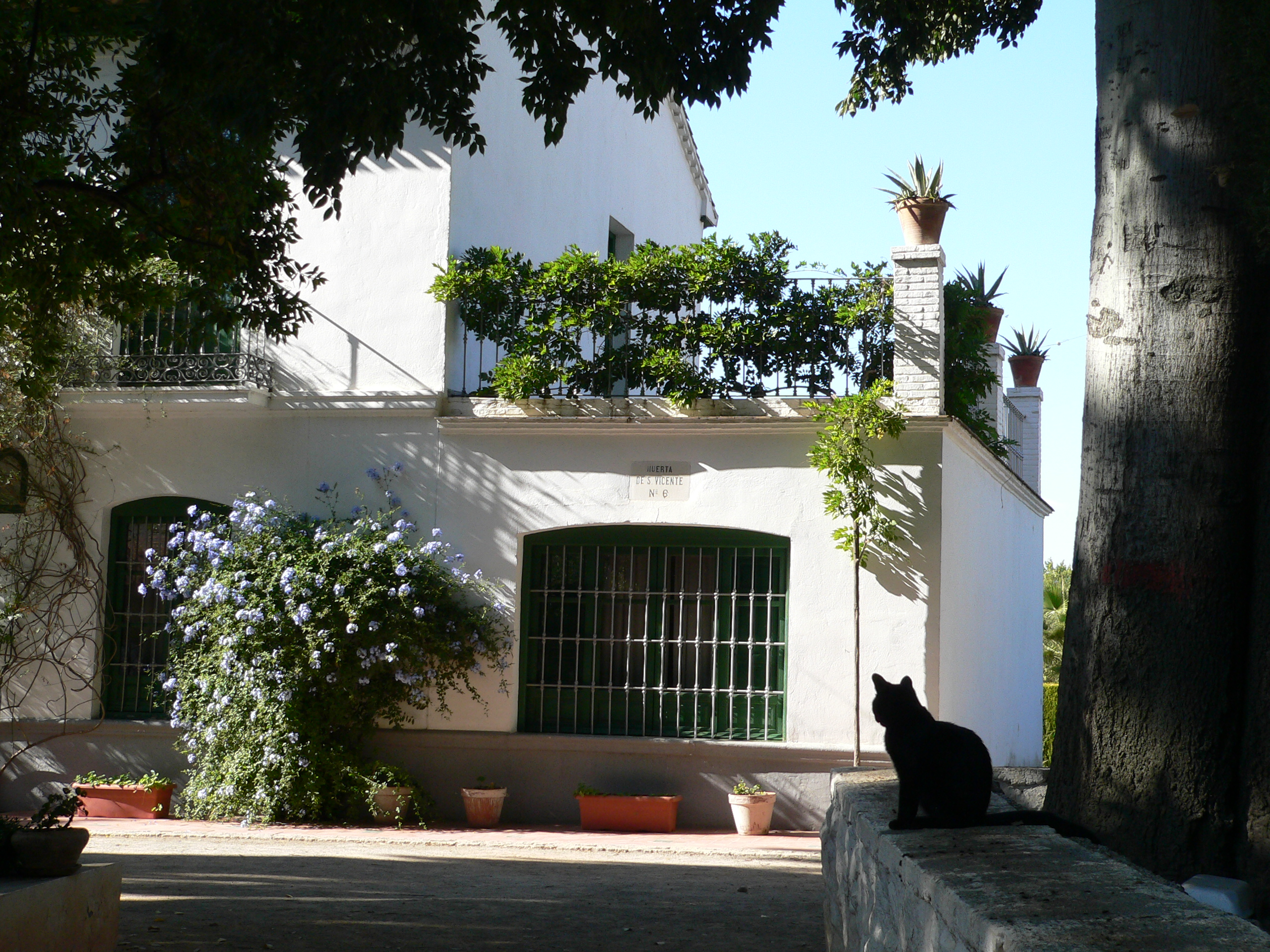 Huerta de San Vicente, Lorca's sommer home in Granada, Spain